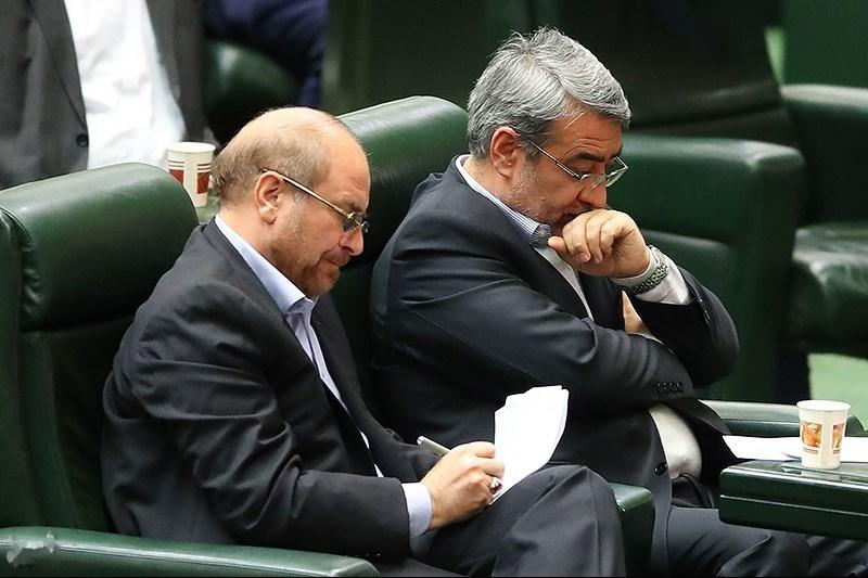 Plasco disaster report inIslamic parlement Iran